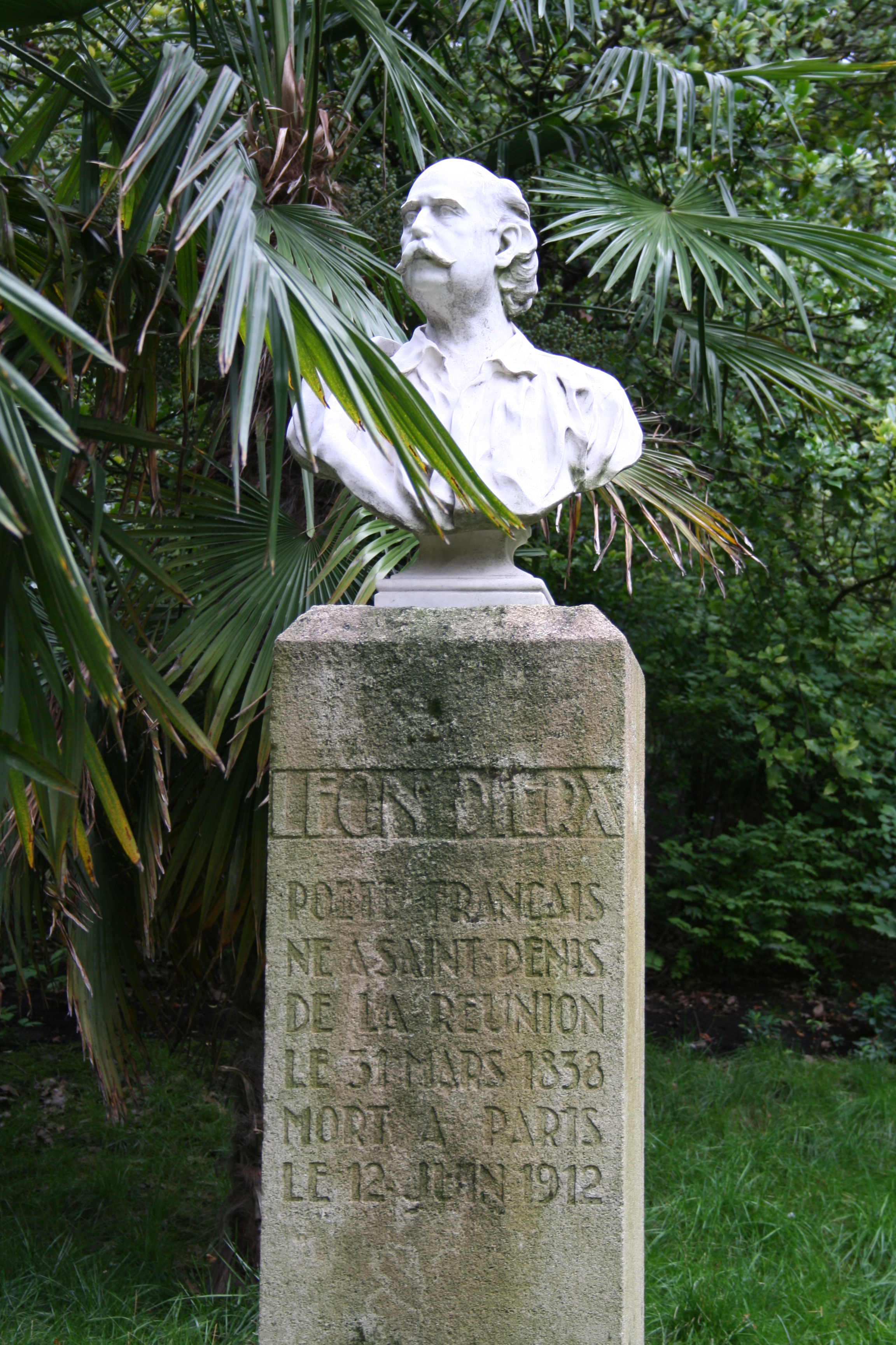 Square des Batignolles (Paris, France).